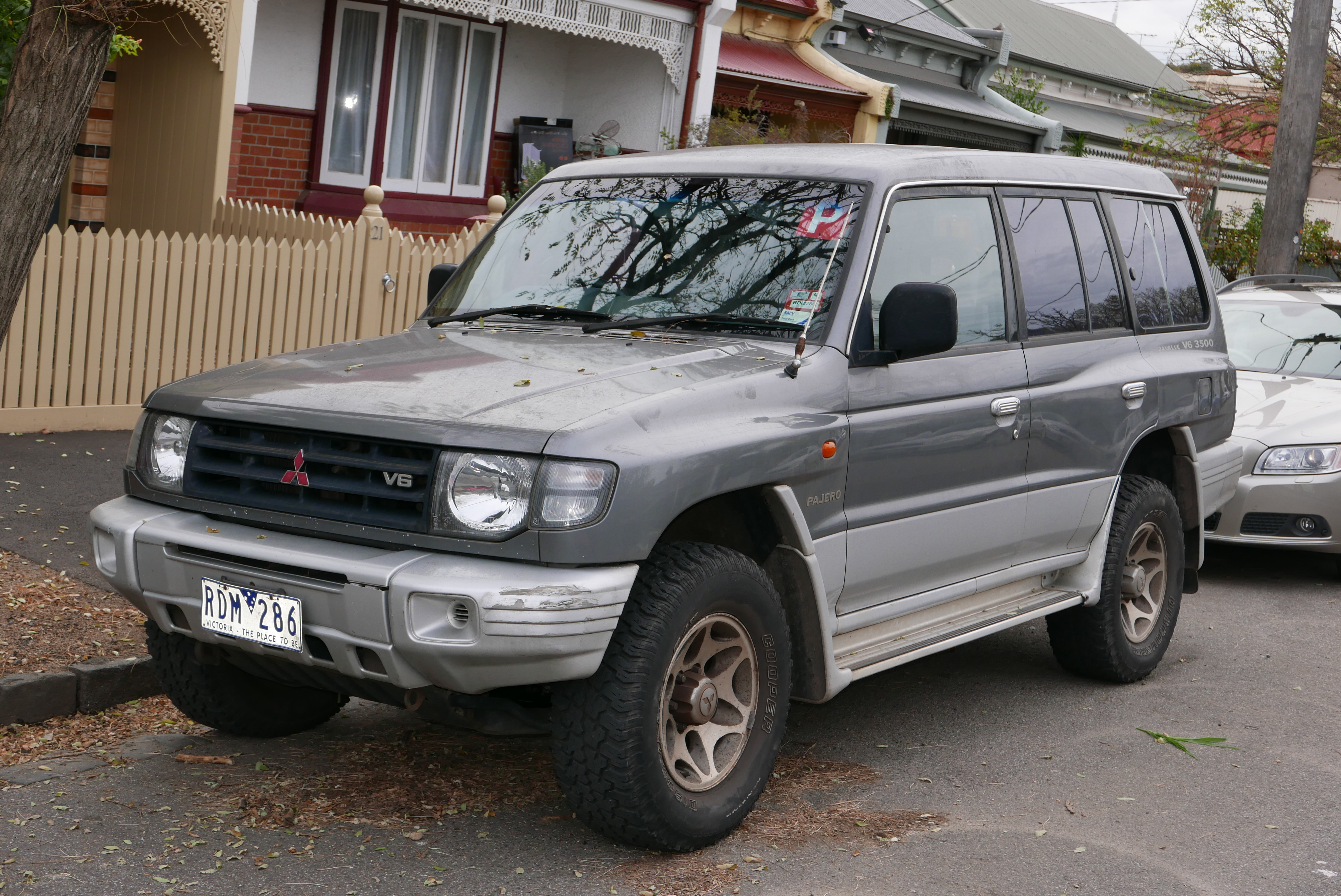 1998 Mitsubishi Pajero (NL) GLS wagon. Photographed in Fitzroy North, Victoria, Australia. Vehicle registration enquiry results Jurisdiction Victoria Registration RDM286 Chassis code JMF0RV450WJ002718 Engine code 6G74GD7862 Compliance date 1998-05 Year of manufacture 1998